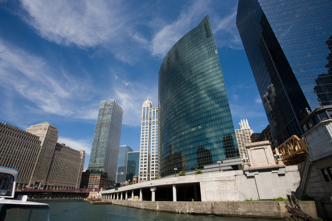 Located at a bend in the Chicago River, this prominent Post-Modern, 36-story edifice echoes the curving form of its natural neighbor. Designed in 1983 by the architectural firm of Kohn Pedersen Fox, the office tower is sheathed with reflective, green-tinted glass that changes shade depending on the sun and water. Broad horizontal bands of brushed stainless steel run every 6 ft. Green marble and gray granite form the base of this elegant, wedge-shaped building, materials used again in the two-story lobby. In 2007, 333 West Wacker Drive was ranked #62 on the AIA 150 America's Favorite Architecture list.